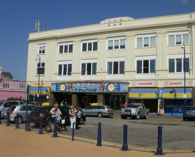 Caesar's Palace, Barry Island, Barry,Vale of Glamorgan